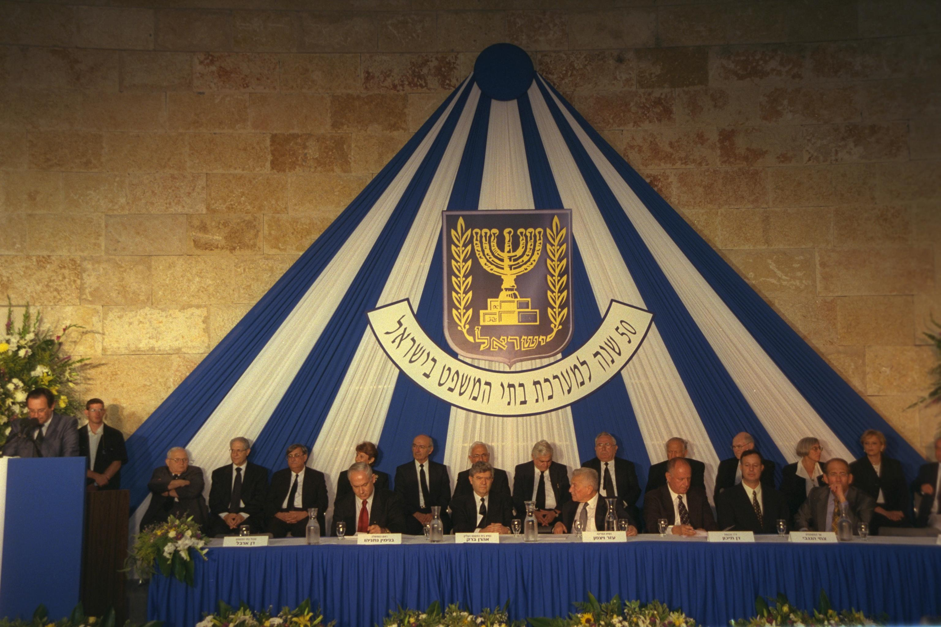 A ceremony marking 50 years of law held at the Supreme Court in Jerusalem, with the presence of President Ezer Weizman Prime Minister Benjamin Netanyahu. First row from right to left: Ehud Olmert, Tsachi Hanegbi, Dan Tichon, Ezer weitzmann, Aharon Barak, Binyamin Netanyahu Second row from right to left, all are supreme court judges of 1998: Dorit Beinish, Dalia Dorner, Yitschak Zamir, Mishael Heshin, Theodor Or, Shlomo Levin, Eliyahu Matza, Yaakov Kedmi, Tova Strassberg-Cohen, Jacob Turkel, Yitschak Engelrad, Menachem Ilan (temporary judge in the Supreme court). Note that the judges are organized according to seniority from the center outwards, such that Shlomo Levin, the deputy president of the court is in the middle. טקס לציון 50 שנה למערכת בתי המשפט בישראל הנערך בבית המשפט העליון בנוכחות נשיא המדינה, עזר ויצמן וראש הממשלה בנימין נתניהו Photo: OHAYON AVI, 09/15/1998